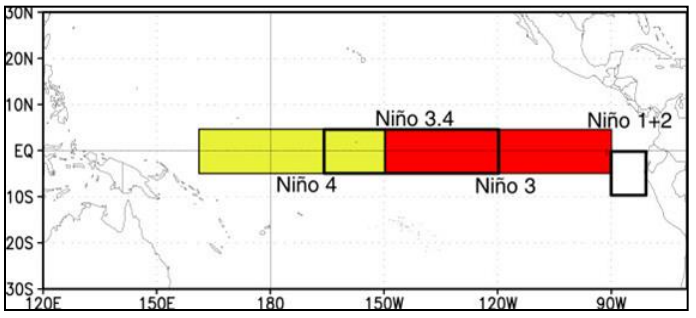 This image defines the various "Nino" regions where sea surface temperatures are monitored to determine the current phase of ENSO (warm or cold)